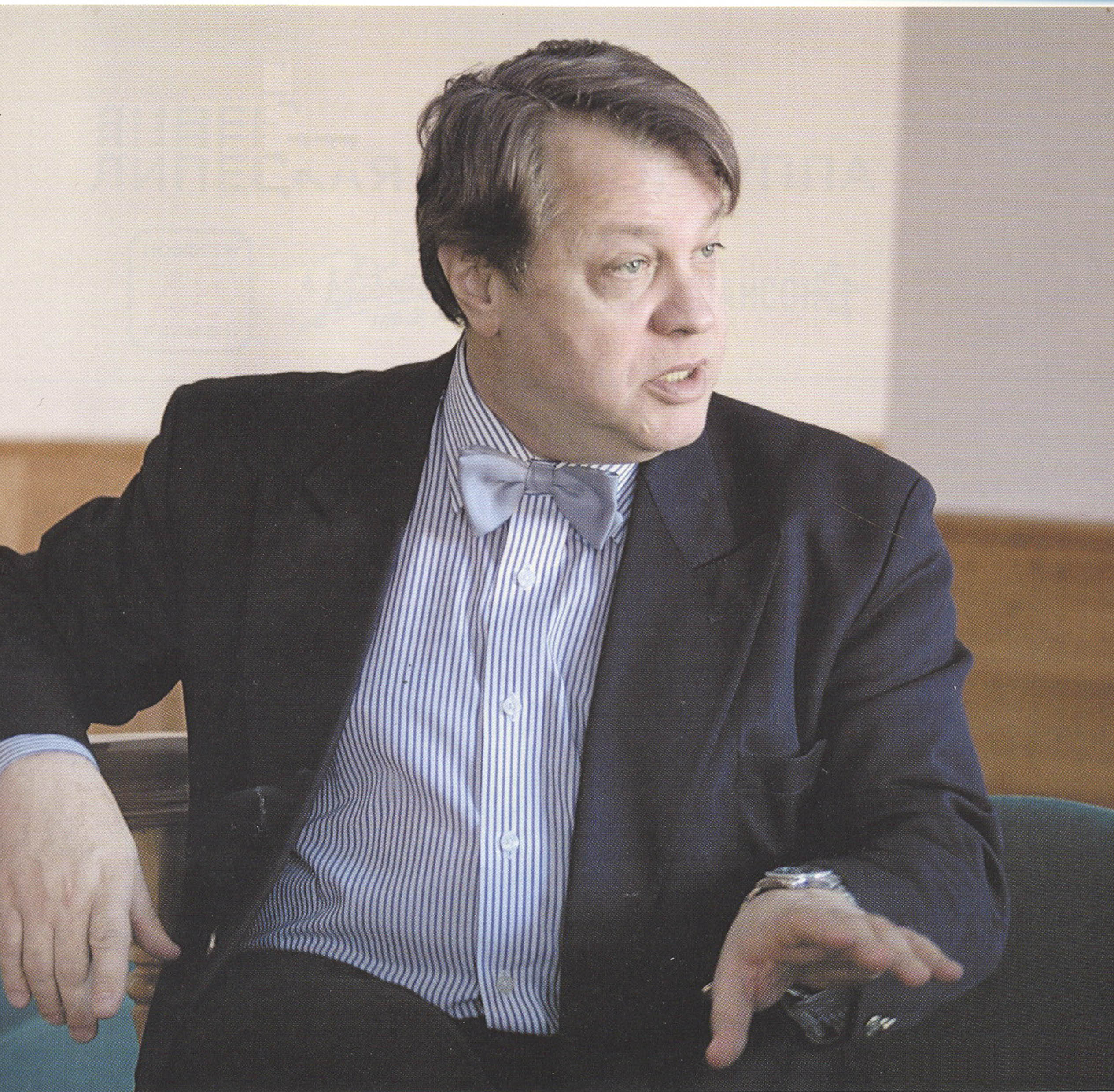 This file shows Alexandre Naoumenko (tenor) conducting a masterclass to students.